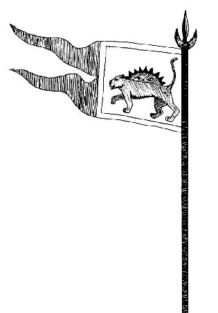 On of the earliest-known representation of the lion and sun as a banner device. From a miniature painting, dated 826/1423, of the Šāh-nāma of Shams-al-Din Kashani. This epic is a composition on the Mongol conquest . From S. Nafīsī, Derafsh-e Iran wa Shir o Khorshid, Tehran, 1328 Sh./1949.